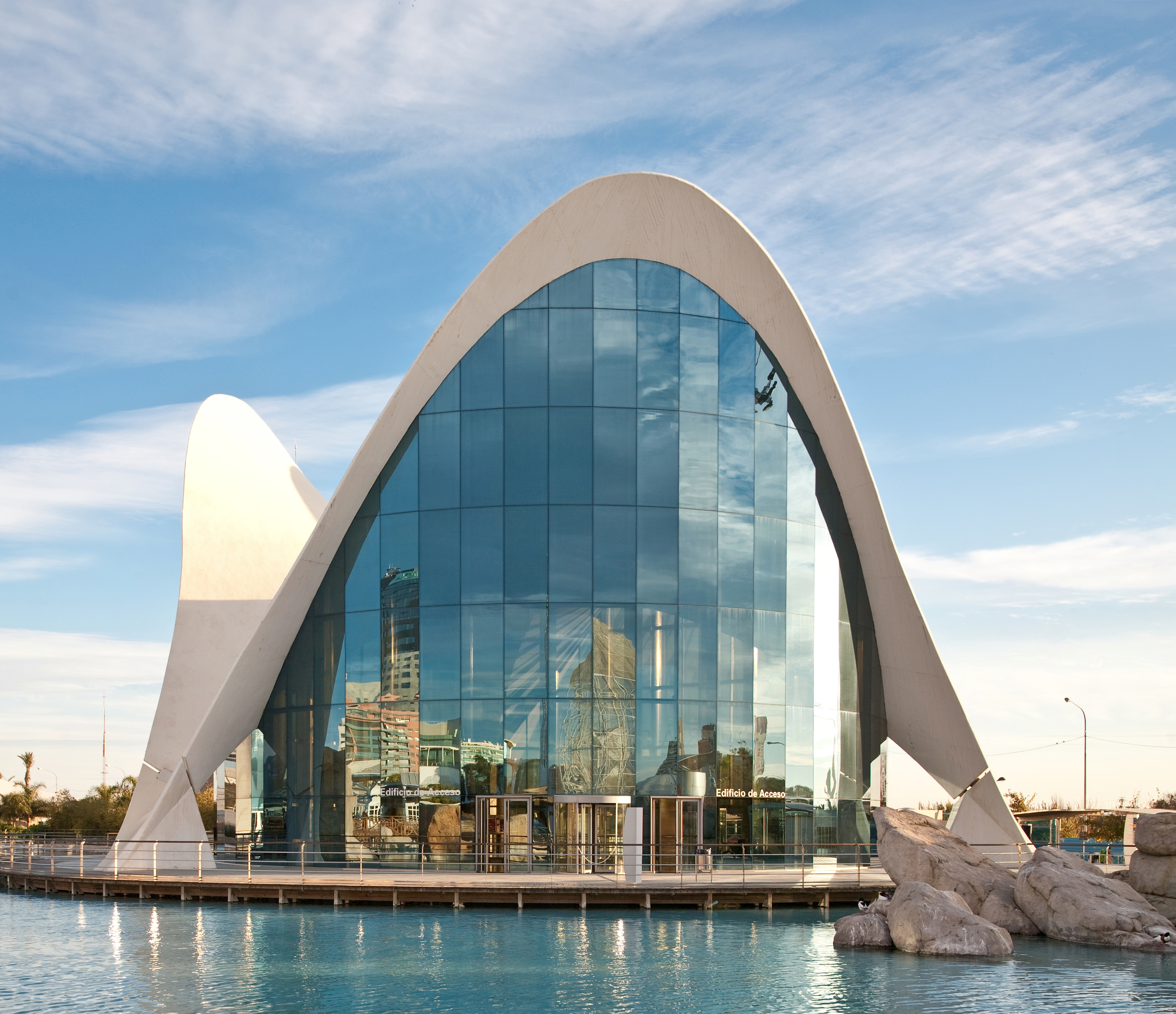 The main entrance of L'Oceanografic in Valencia, Spain as viewed from the side across the water.